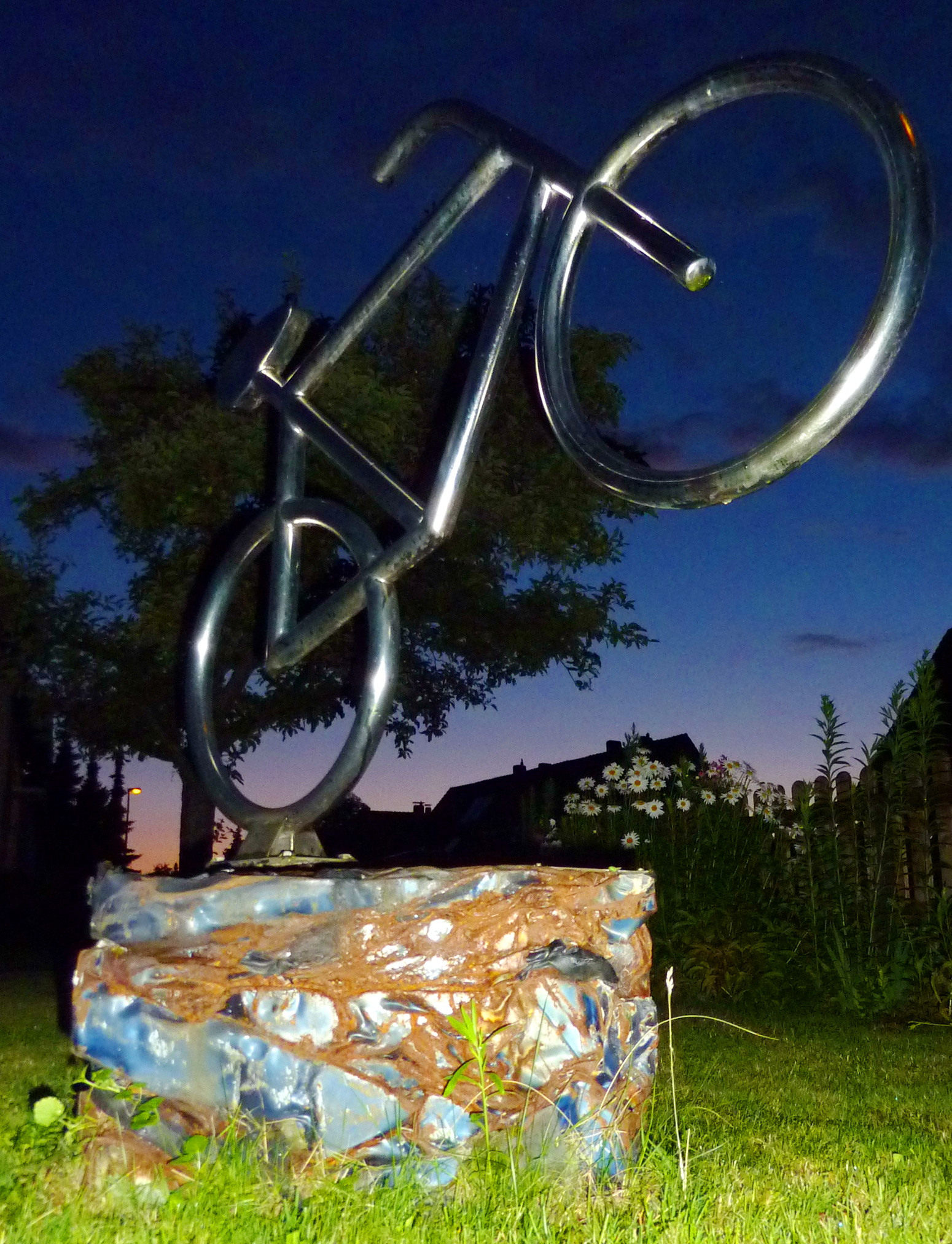 Euhus, Walter, "Victory", Stahl auf Autoschrott, 1995